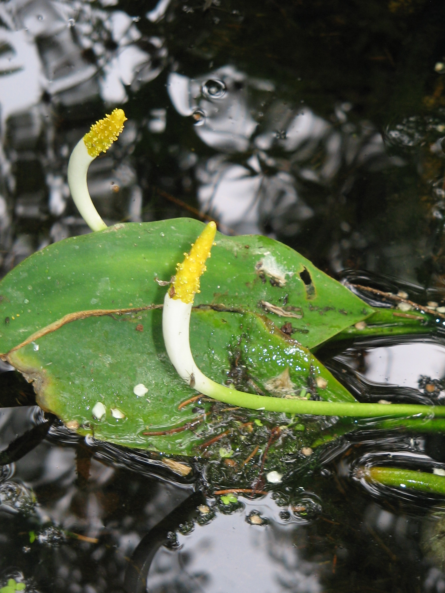 Orontium aquaticum detail